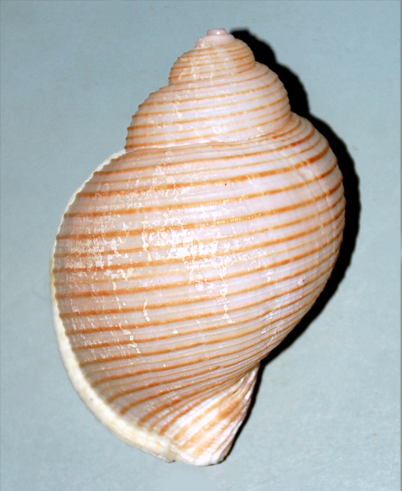 Dorsal view of Eudolium crosseanum